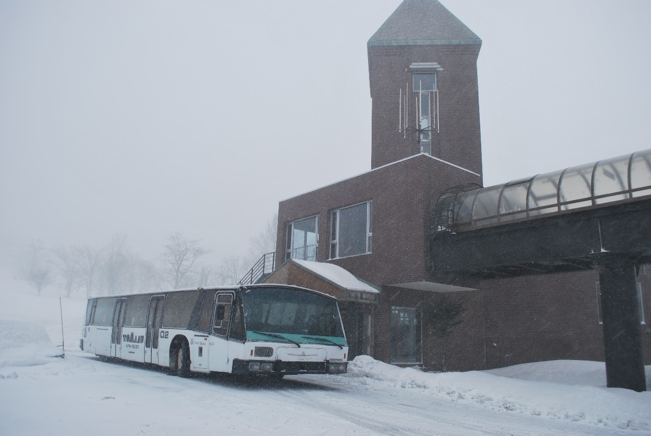 Neoplan Airliner N940 airport bus in Tomamu Station, Hokkaidō region, Japan.